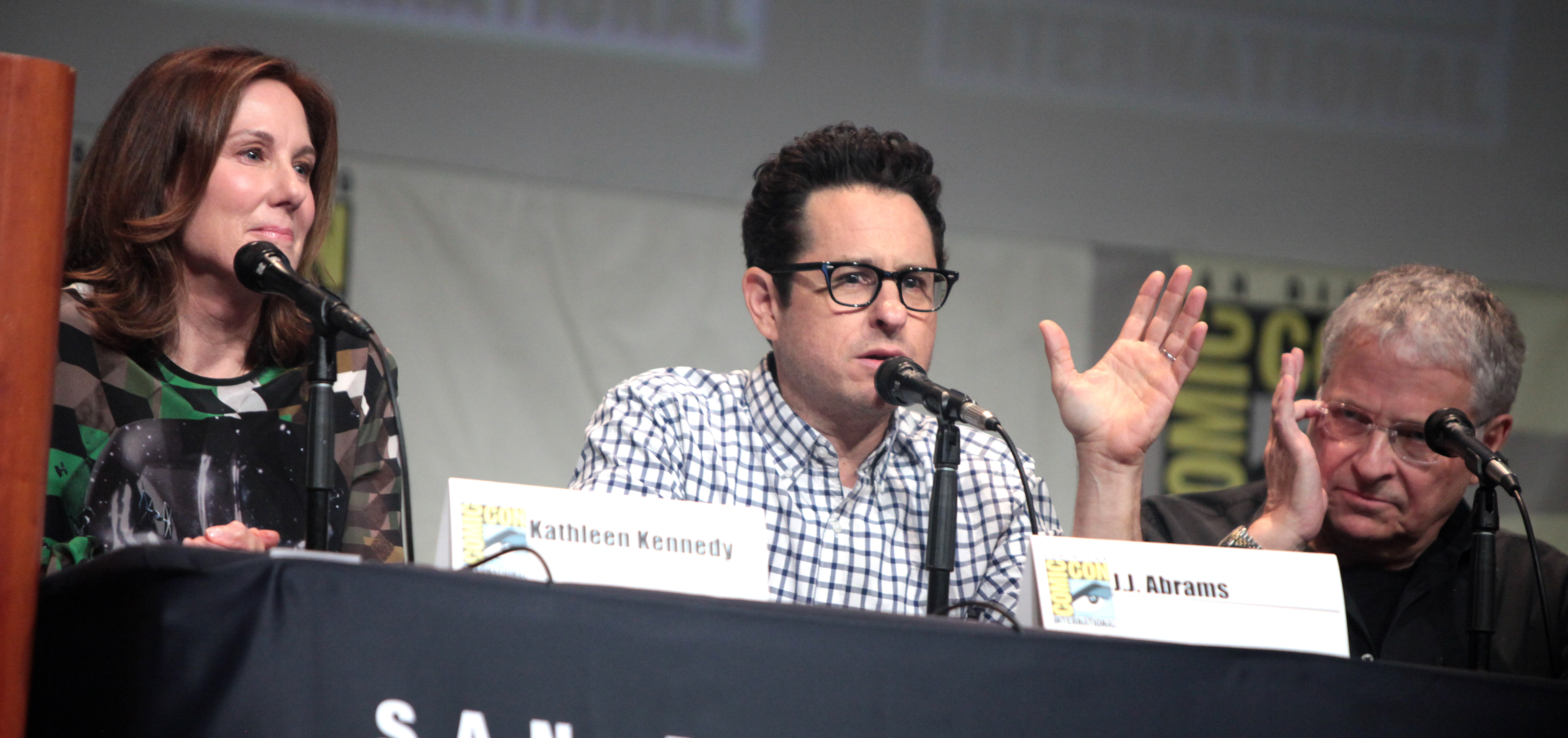 Kathleen Kennedy, J. J. Abrams and Lawrence Kasdan speaking at the 2015 San Diego Comic Con International, for "Star Wars: The Force Awakens", at the San Diego Convention Center in San Diego, California.